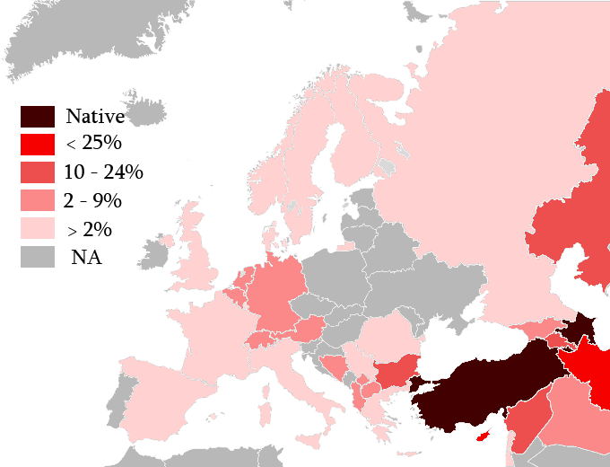 This is a map based on ethnic population. The map does not make a difference between Azeri or Turkish, since they are merely dialects of the Oghuz language.